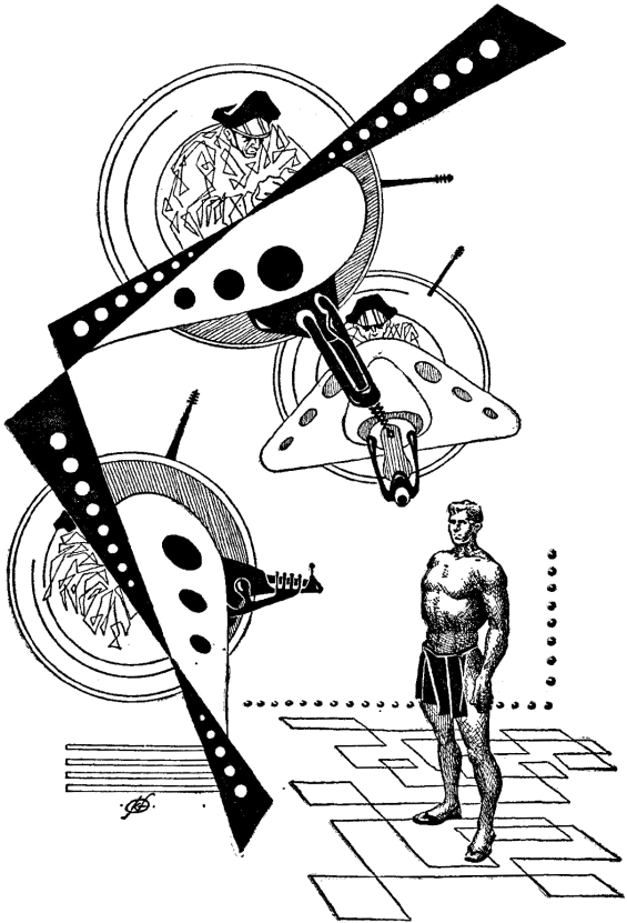 Illustration for "The Golden Man" by Philip K. Dick from page 4 of If : Worlds of Science Fiction (April 1954), published by Quinn Publishing, not renewed.